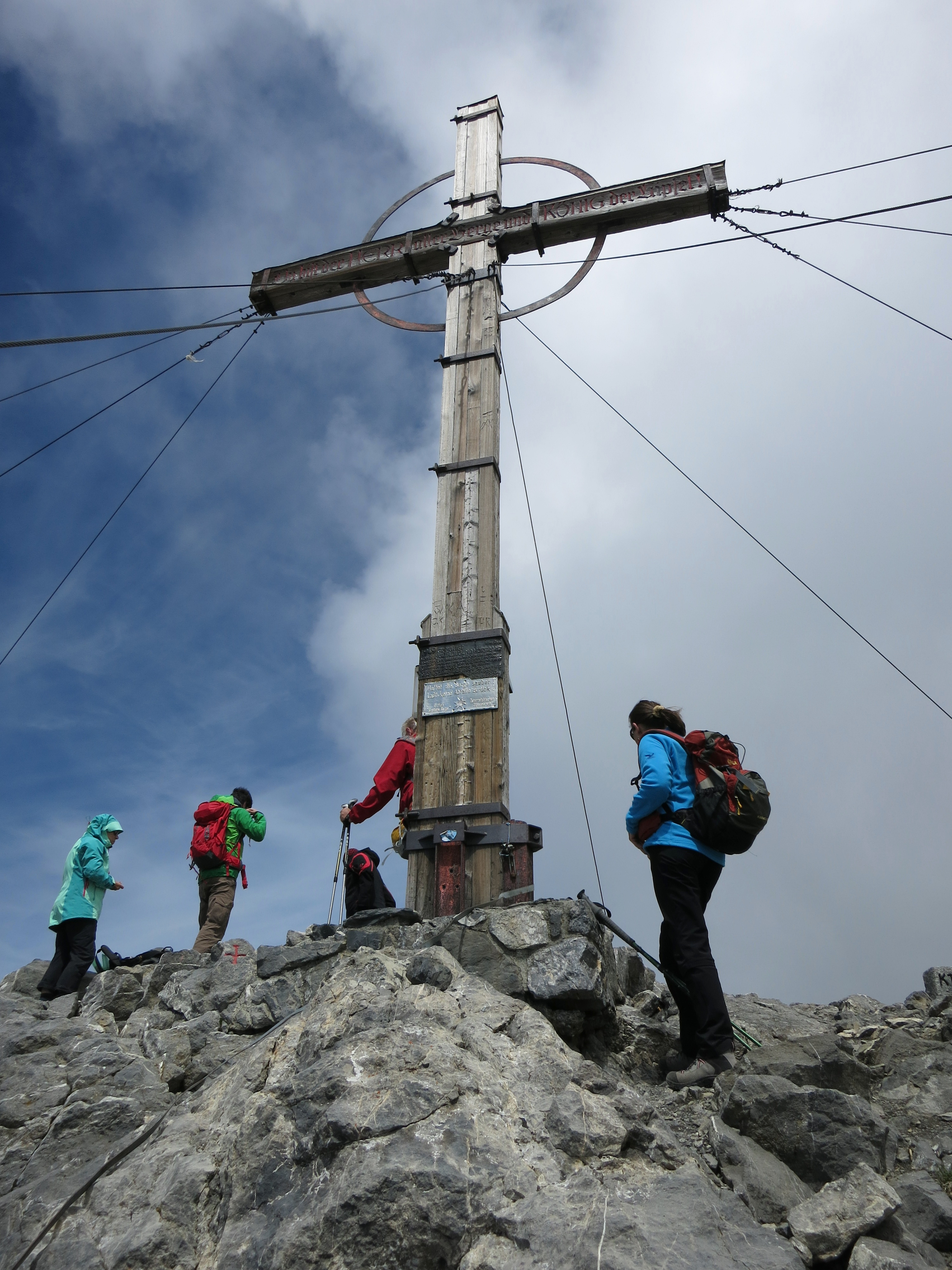 On top of mountain Schesaplana